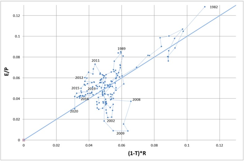 CSS Equilibrium as function of time for the S&P500 index Aug 2020